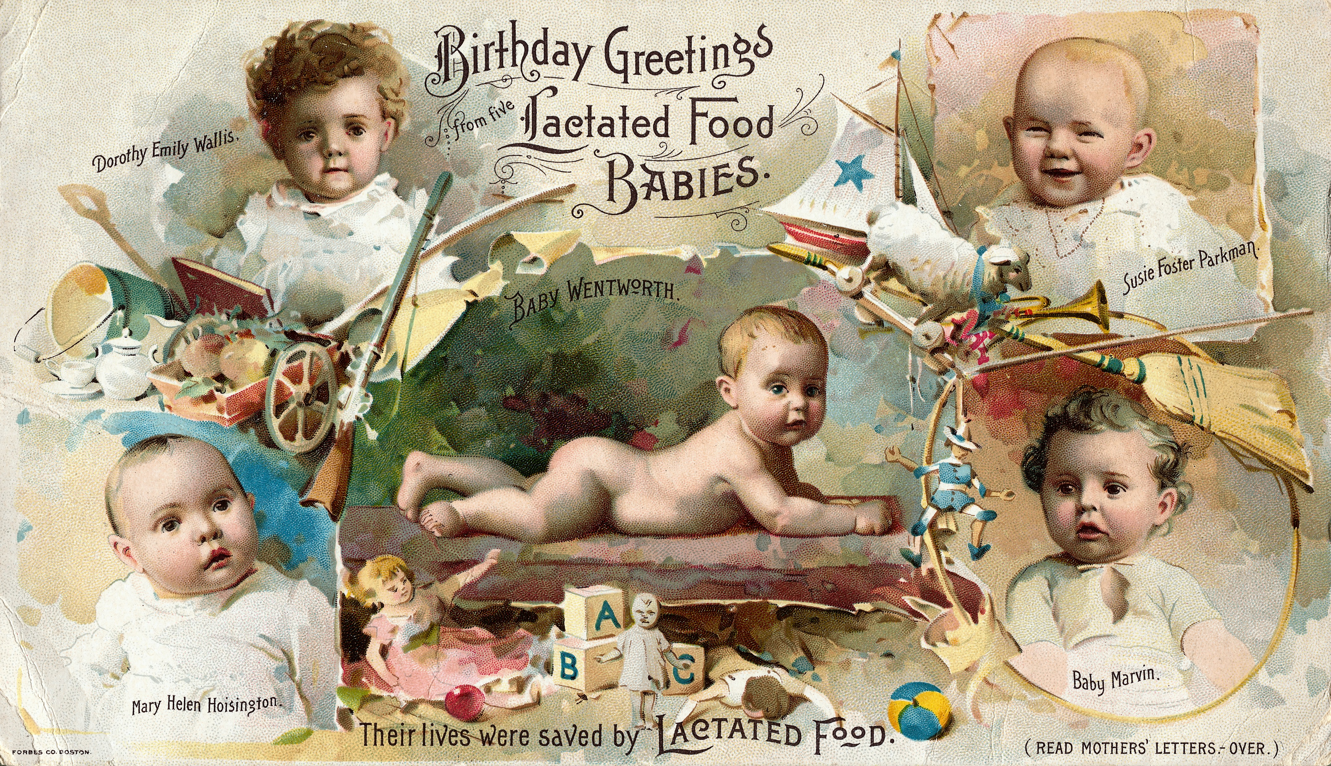 Birthday greetings from five lactated food babies. Burlington, Vt.: Wells & Ricahrdson. Trade Card Wellcome Images Keywords: Baby; Motherhood; Food; Family Planning